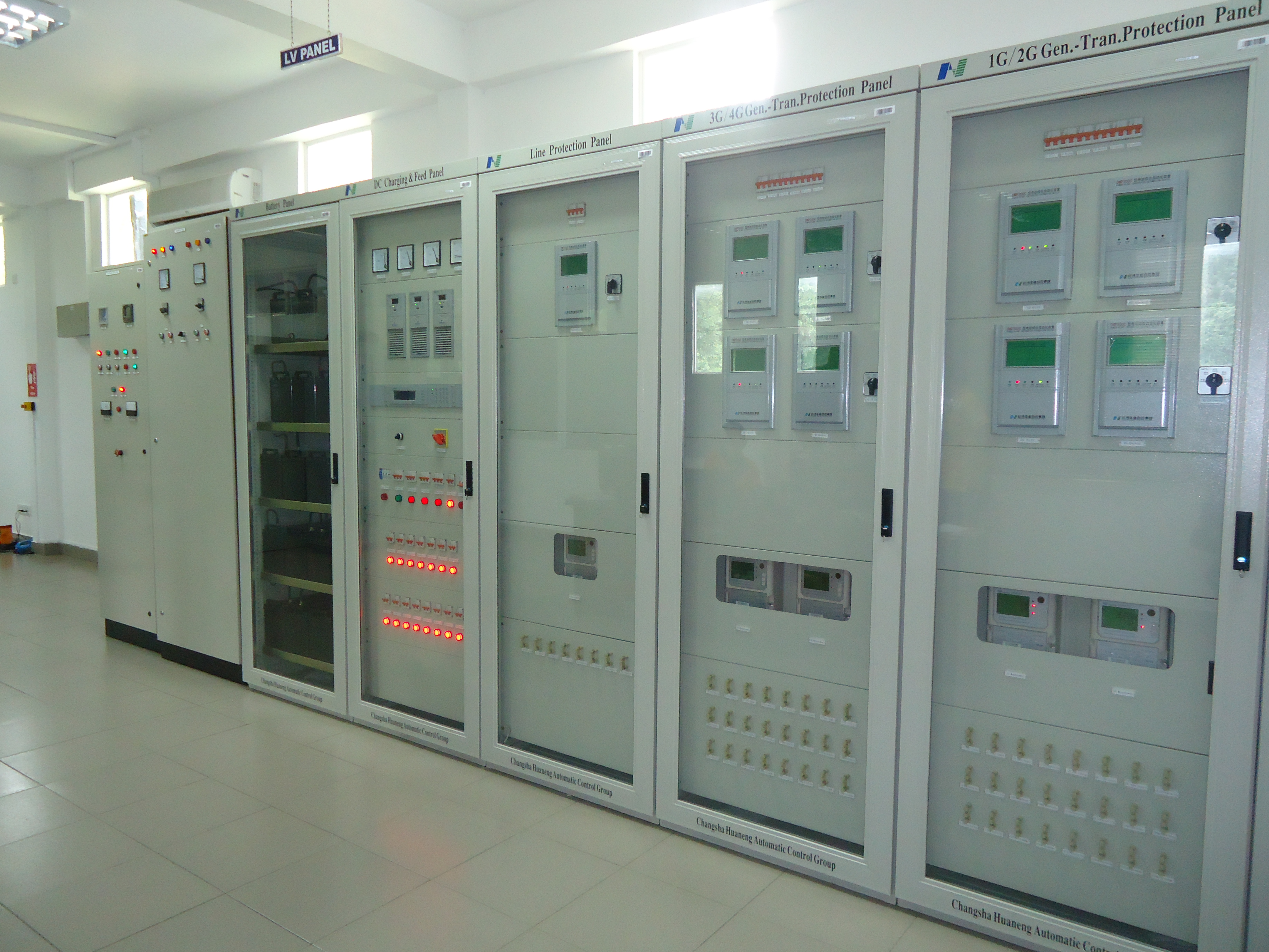 Control Panels